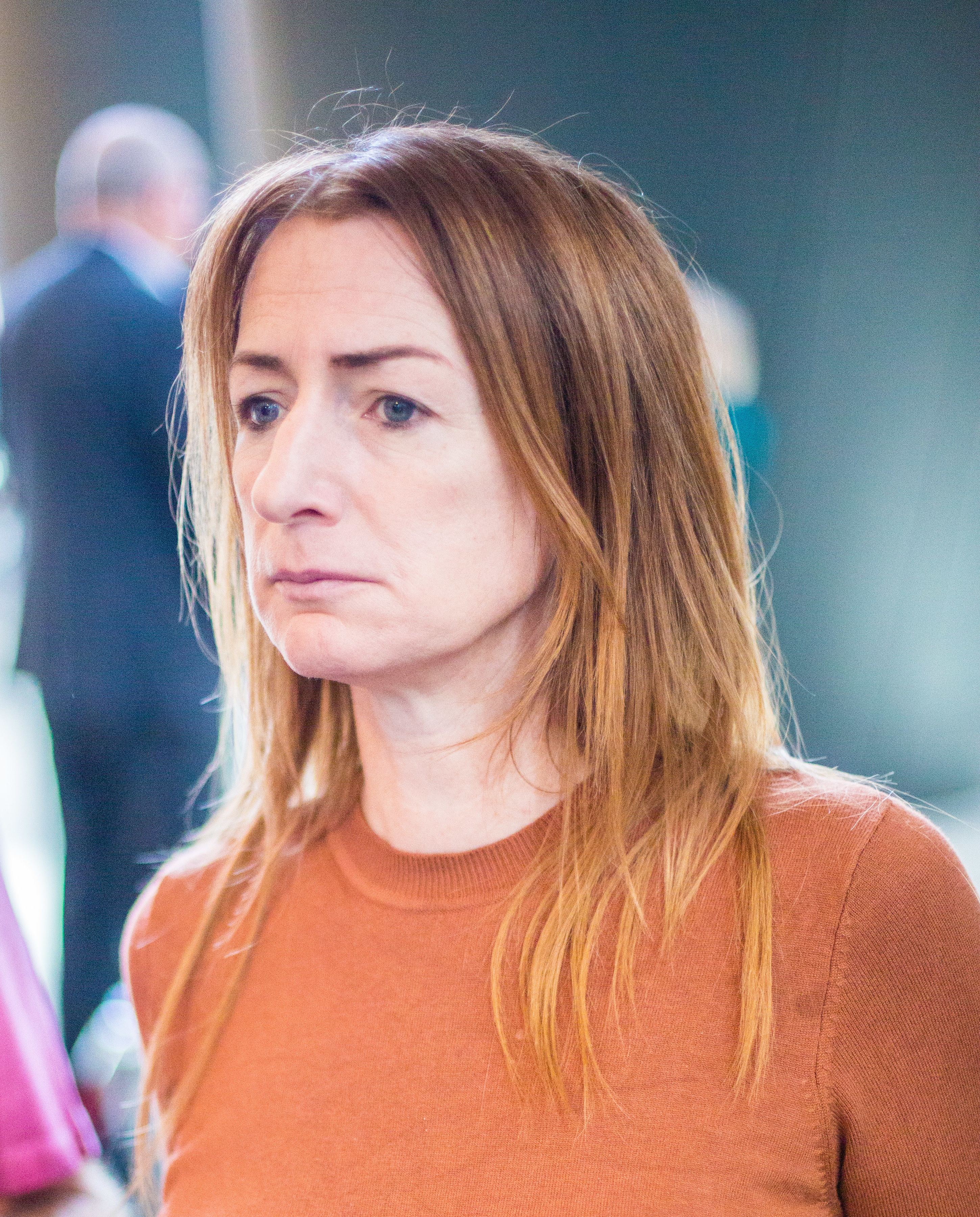 6th anniversary of the assassination of Pavlos Fyssas by the neo-nazis of Golden Dawn.